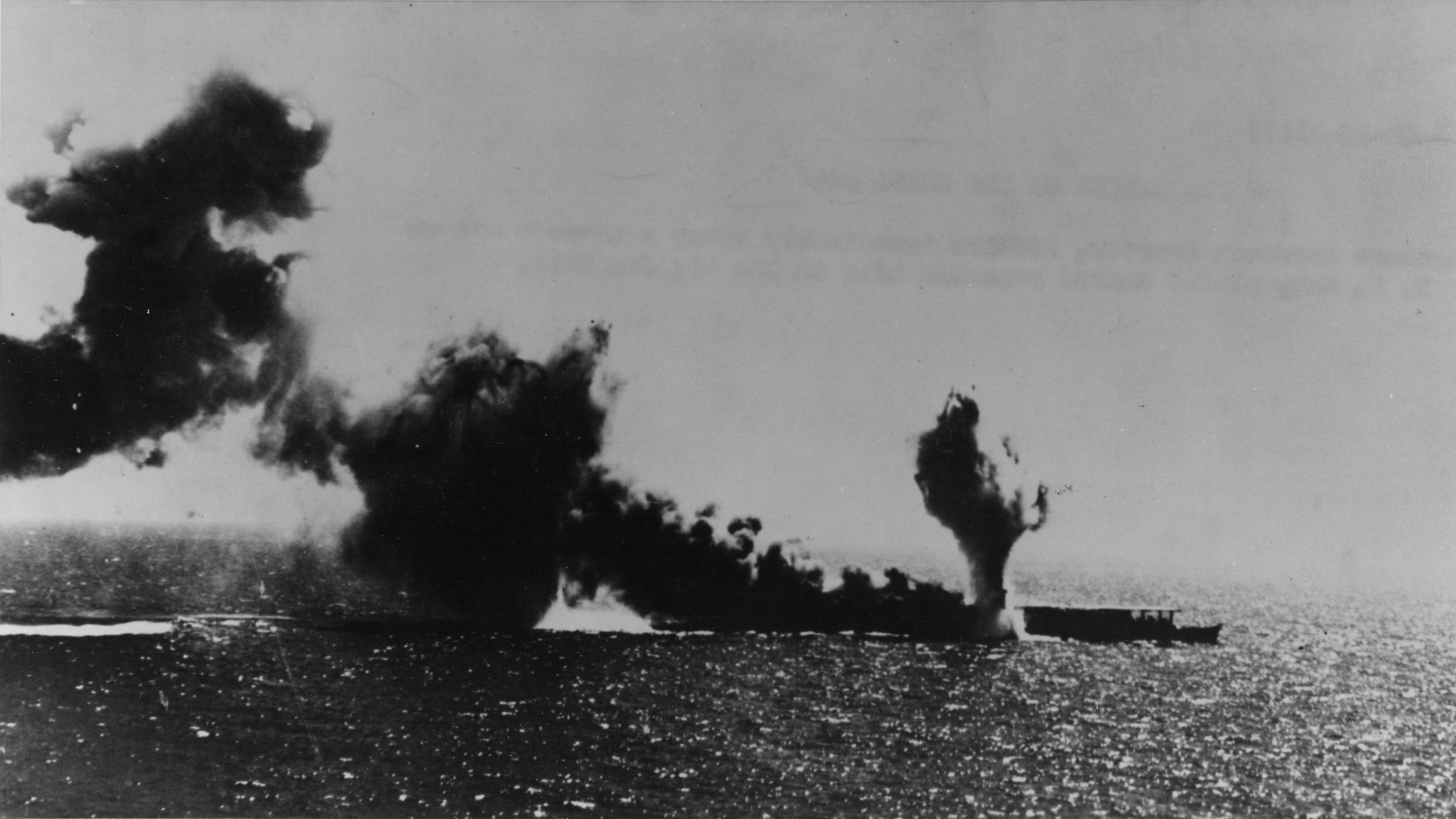 Japanese aircraft carrier Shoho is torpedoed, during attacks by U.S. Navy carrier aircraft in the late morning of 7 May 1942.